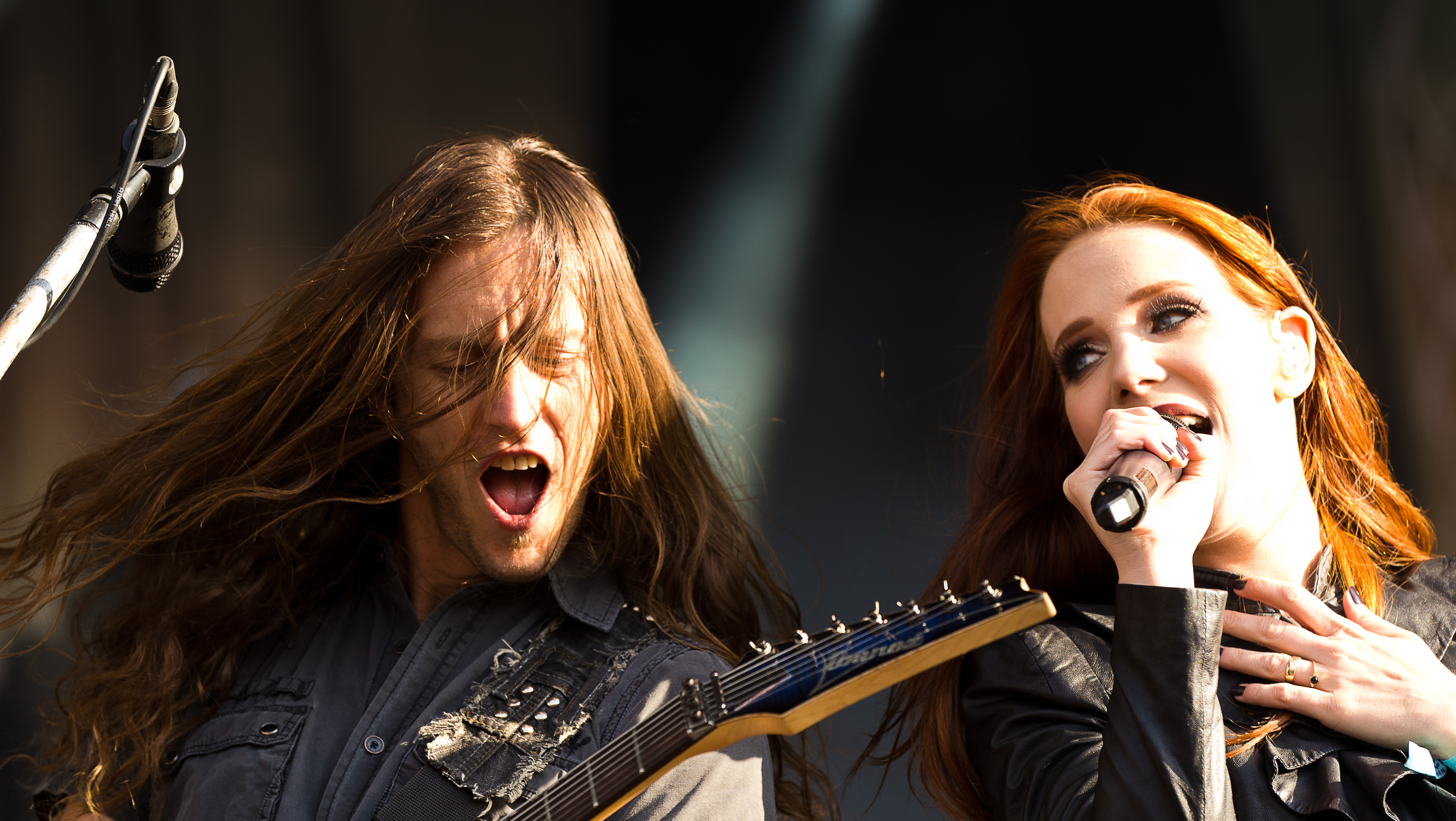 The Dutch symphonic metal band Epica at the Rockharz Open Air 2015 in Ballenstedt/Germany.